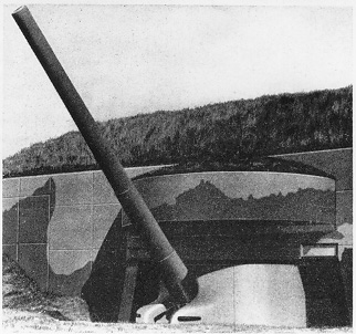 This image, provided courtesy of the Coast Defense Study Group (CDSG), shows a 16-in barbette-mounted gun in a casemated position. These were the largest guns mounted by the U.S. Coast Artillery Corps. This emplacement features a steel shield that wraps around the gun carriage, protecting it from nearby blast effects.